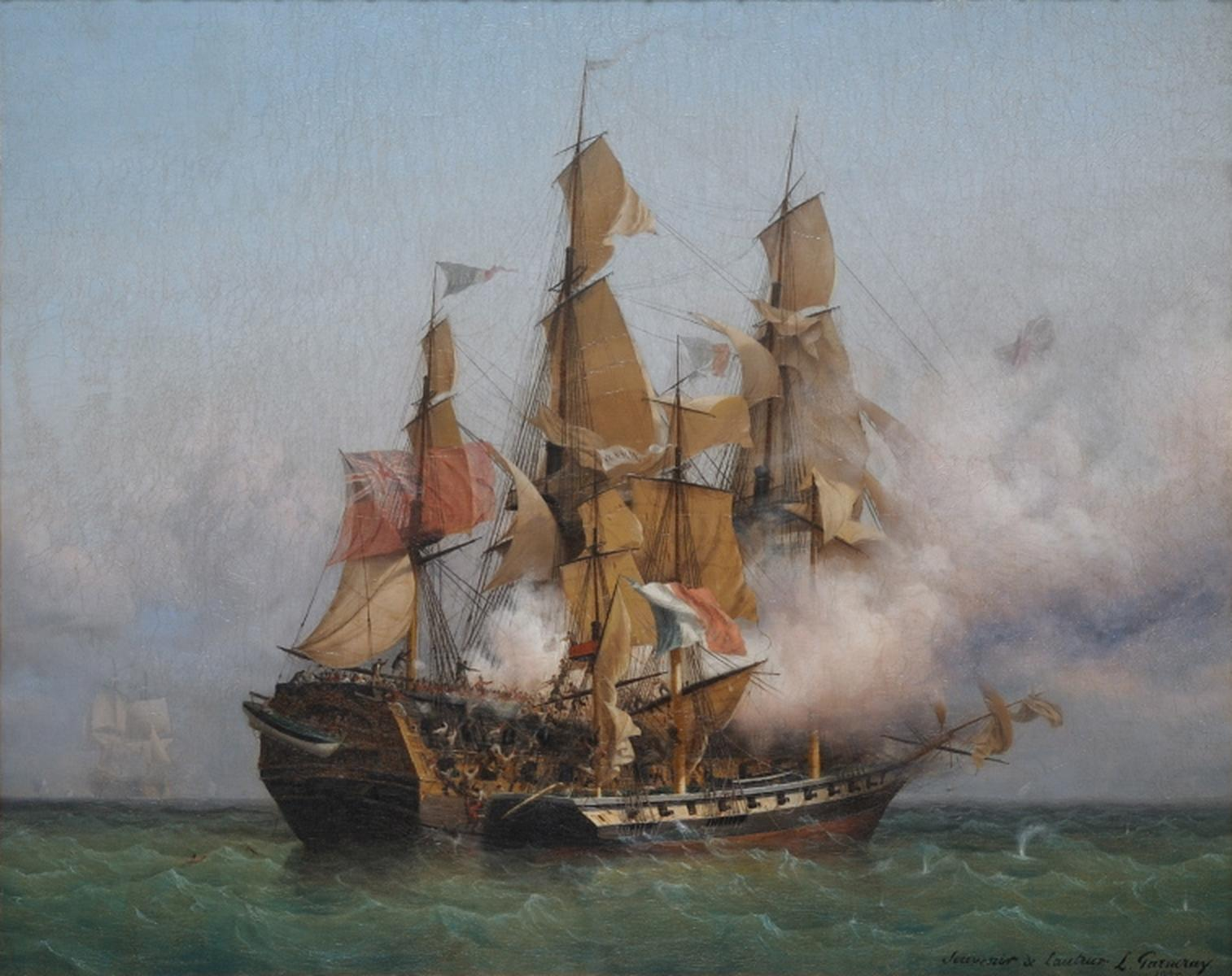 Fight between the French Confiance (Robert Surcouf) and the Kent